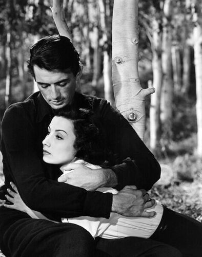 Gregory Peck & Tamara Toumanova in a scene from the 1944 American war-drama film Days of Glory (1944). See also film still. No copyright notice.